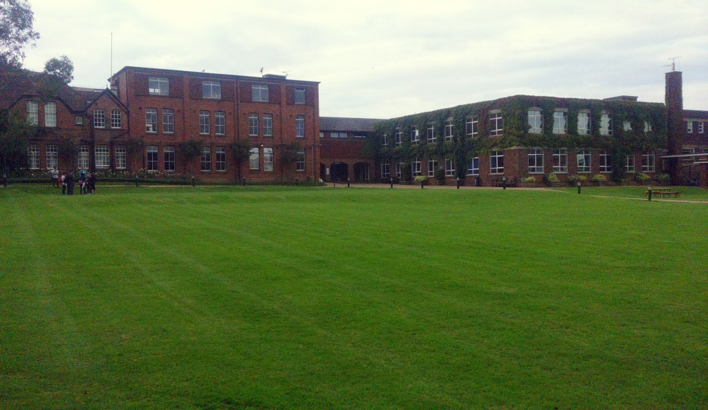 Ashford School Buildings